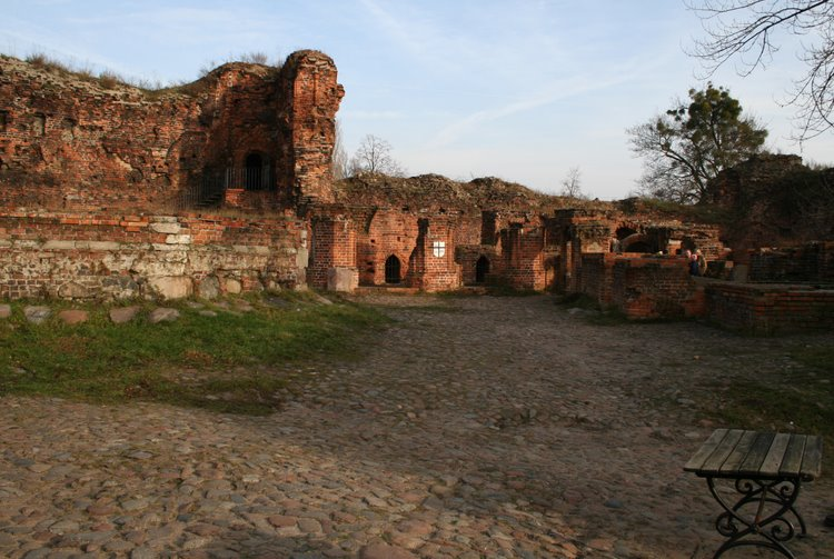 Ruins of Torun Teutonic Knight castel